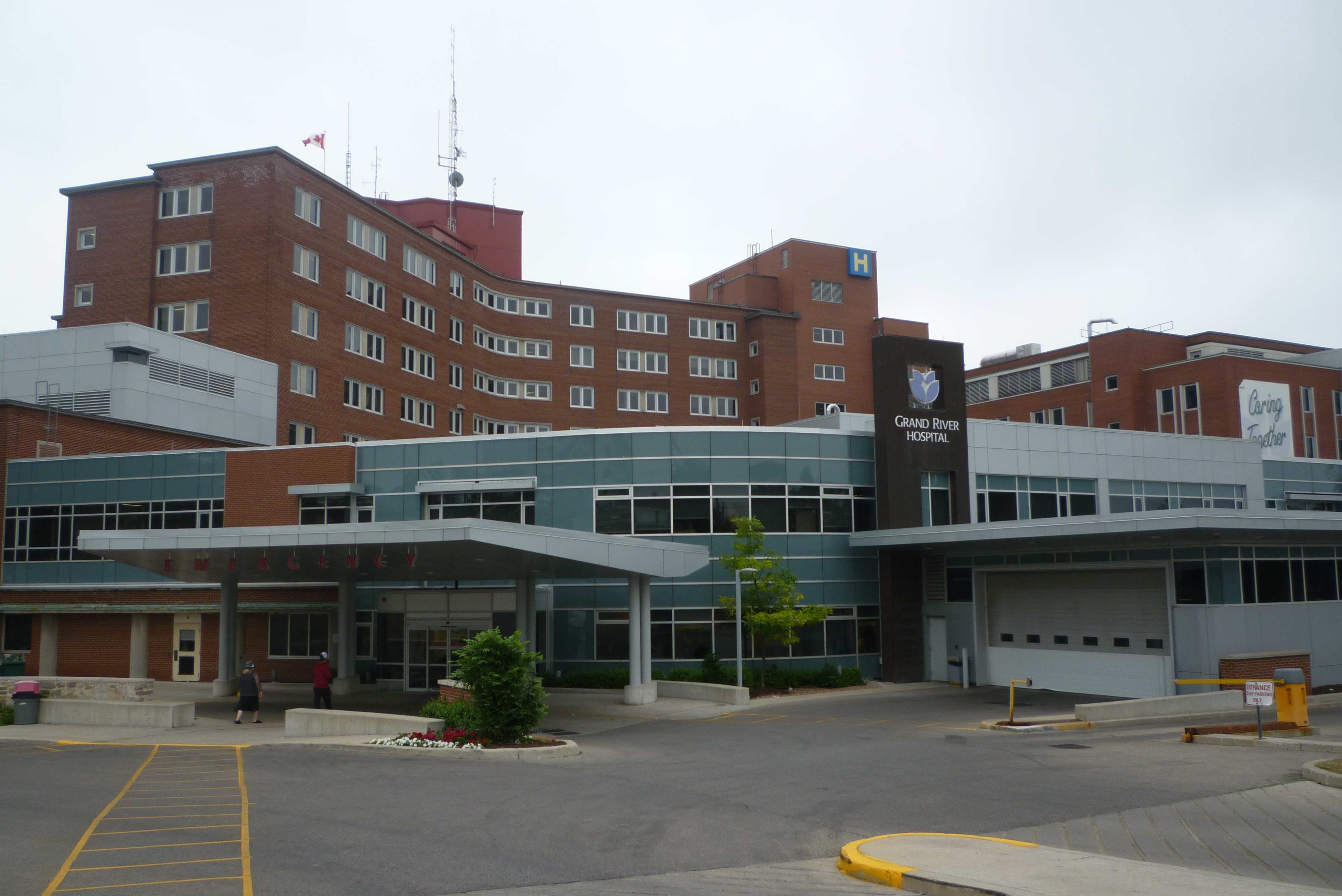 The entrance to Emergency at the KW Health Centre of the Grand River Hospital in Kitchener, Ontario, Canada